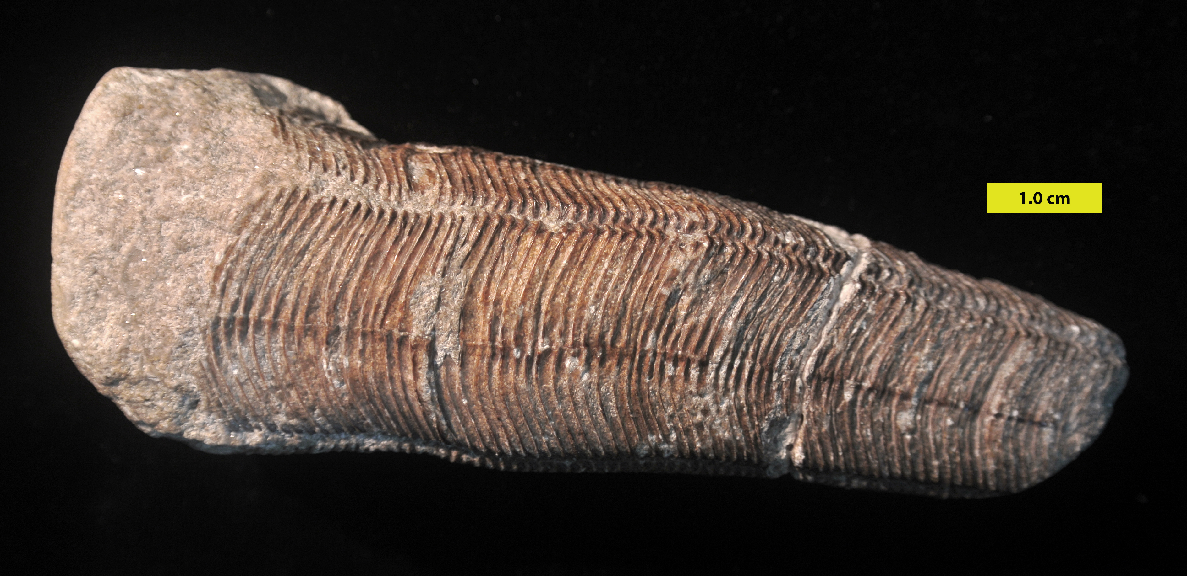 Conulariid from the Mississippian of Indiana.